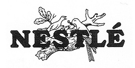 Nestle logo 1938